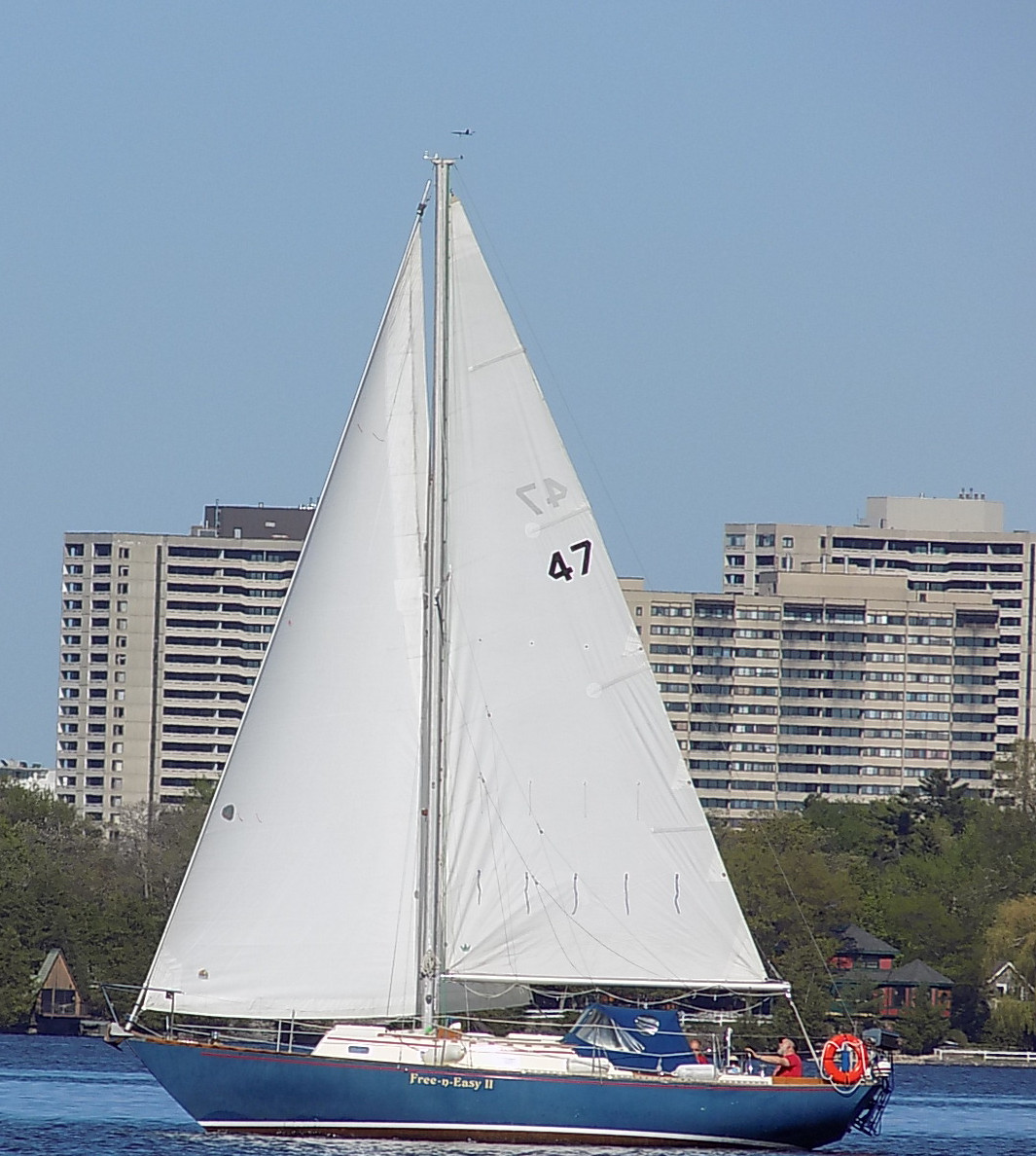 A Corvette 31 sailboat built by C&C Yachts, named Free N Easy II.